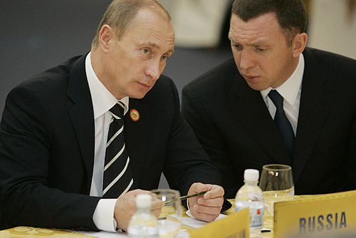 HANOI. With chairman of the board of directors of Basic Element Oleg Deripaska at the meeting between APEC economic leaders and the members of the APEC Business Advisory Council.